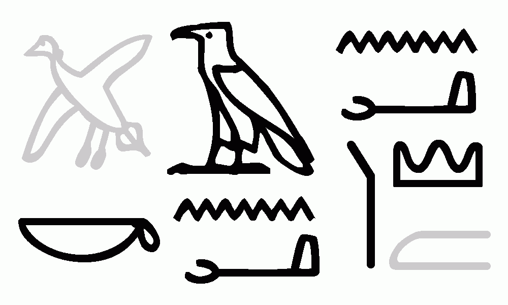 Merenptah Stele (Israel Stele): the name Canaan written in hieroglyphs as it appears on the stele (mirror view) in line 26 (context: Canaan is captive with all woe). Transliteration: k-A-n-a-n-a (basket with handle-Egyptian vulture-ripple of water-arm-ripple of water-arm) plus determinatives: enemy-foreign land (throwing stick-three hills). Note, in WikiHeiro the text should be written as such: G40:V31-G1:N35:D36-N35:D36:T14*N25